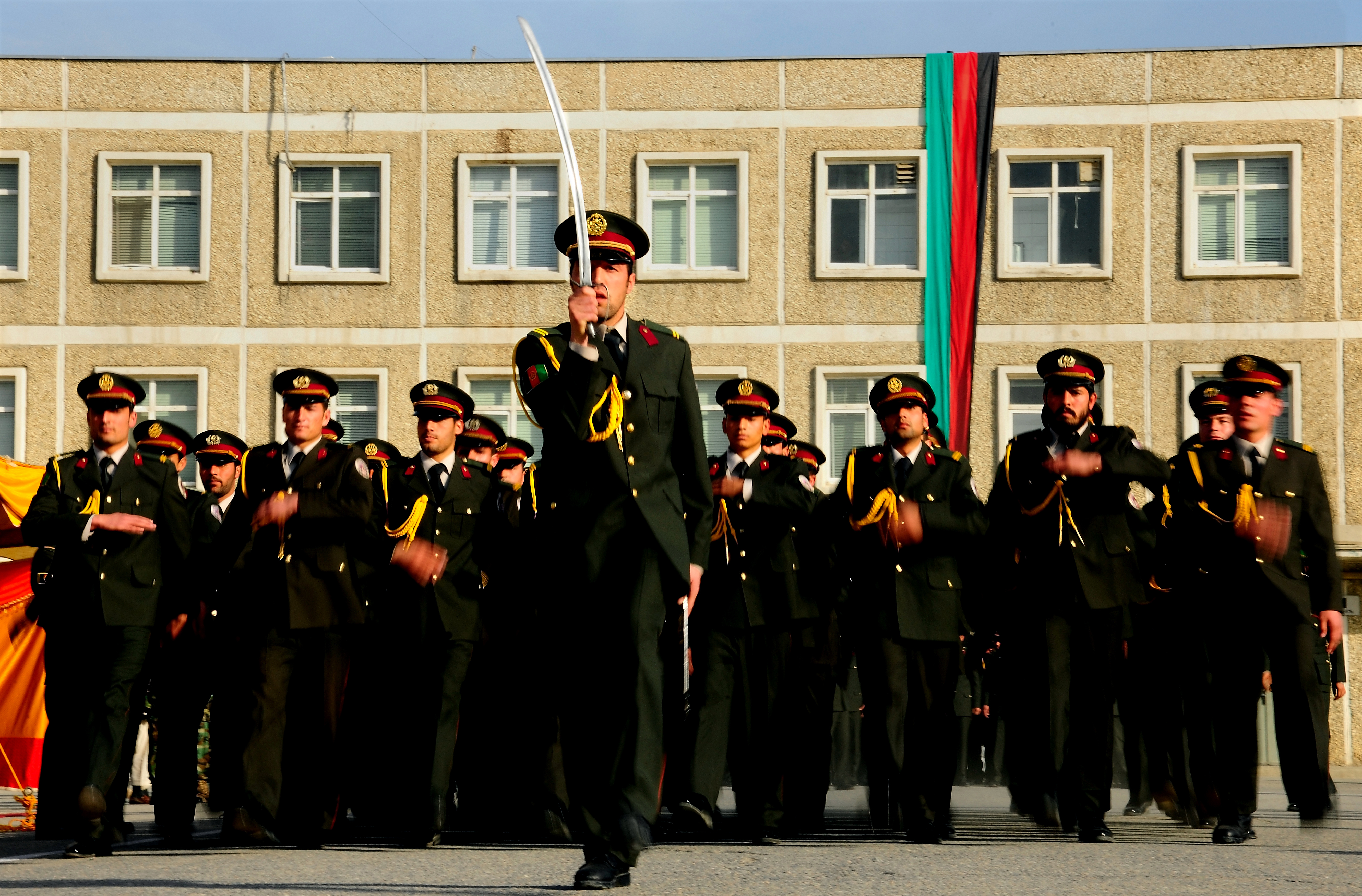 Members of the Afghanistan National Army partake in a pass and review ceremony during the National Military Academy of Afghanistan affirmation here on March 14, 2011. The NMAA is a four-year program committed to graduating officers for the Afghan national army and is modeled after the United States Military Academy at West Point. (U.S. Air Force photo by MSgt Quinton T. Burris)